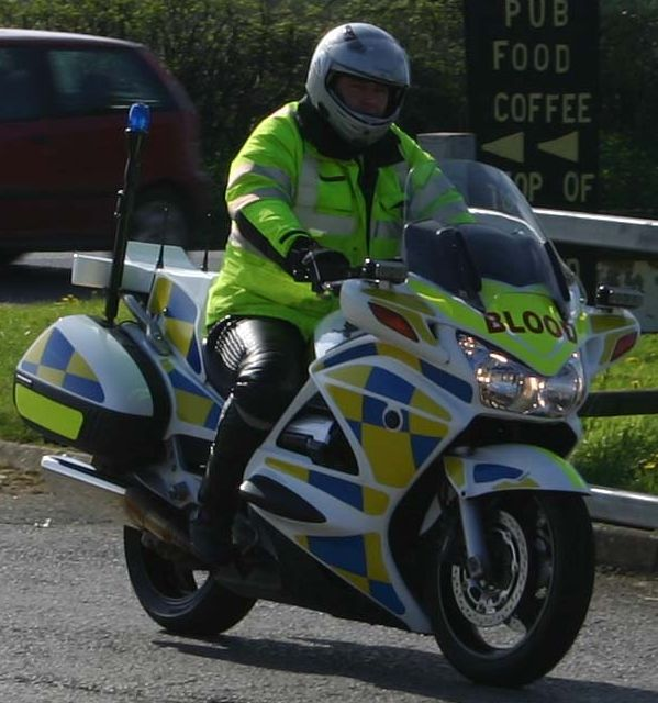 Honda ST1300P Pan-European motorcycle in emergency services configuration